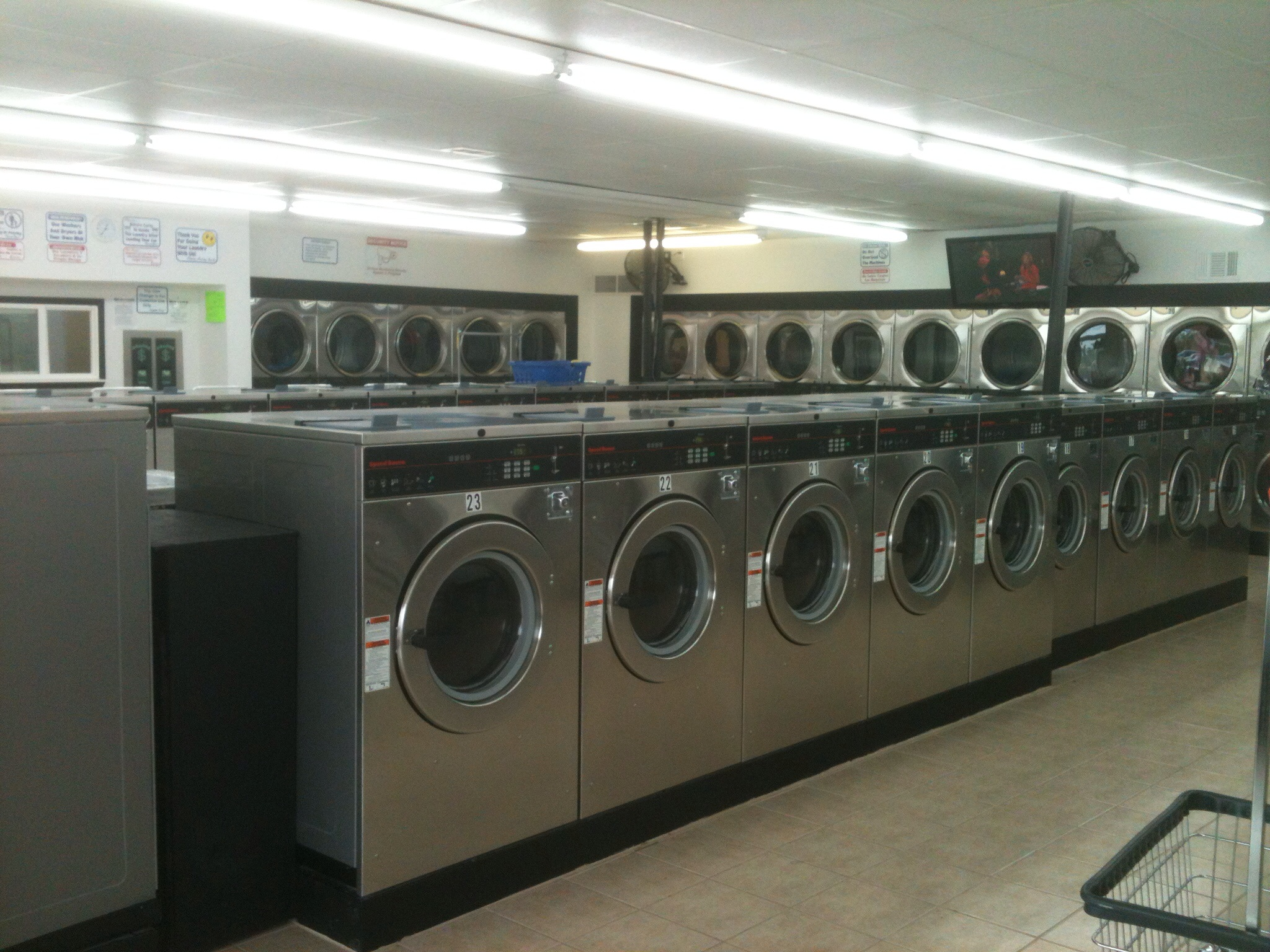 Wash N Go coin laundry in irving texas usa